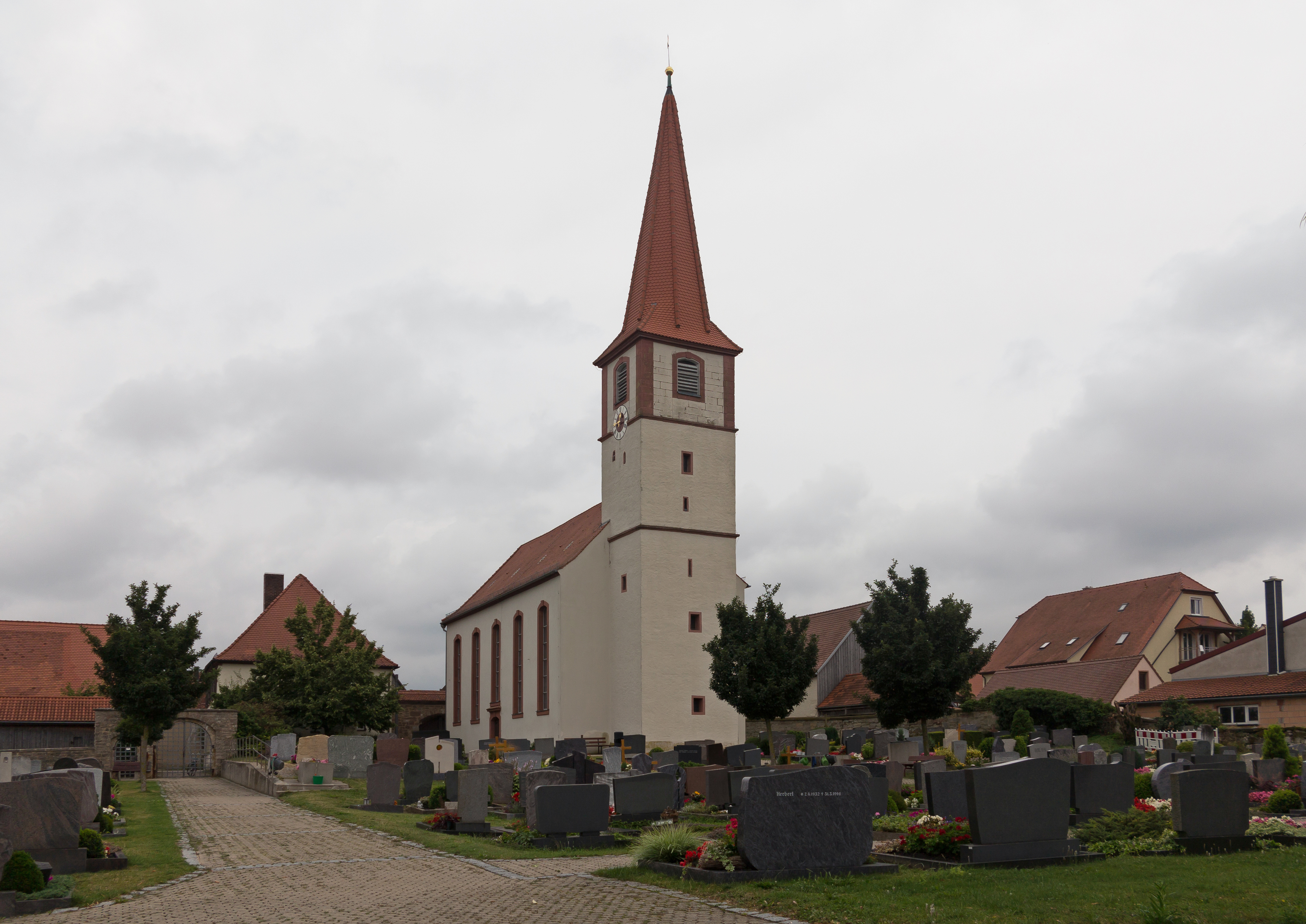 Marktbergel, church: die evangelisch-lutherische Pfarrkirche Sankt VeitThis is a photograph of an architectural monument. f